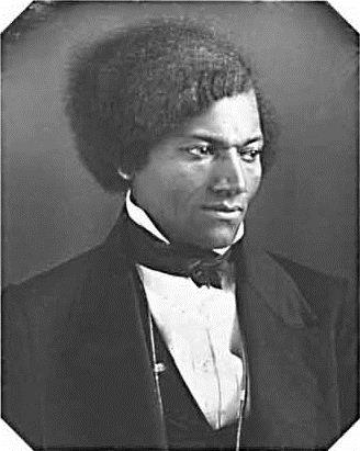 Retouched portrait of Frederick Douglass taken in the 1840s